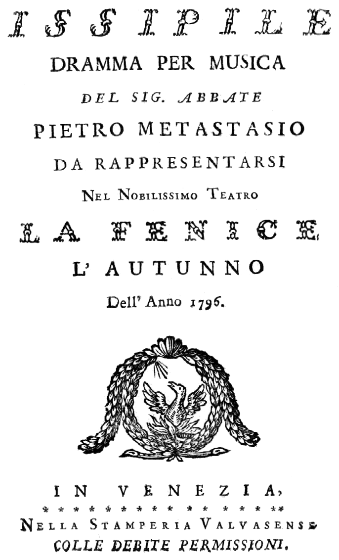 Gaetano Marinelli - Issipile - titlepage of the libretto - Venice 1796